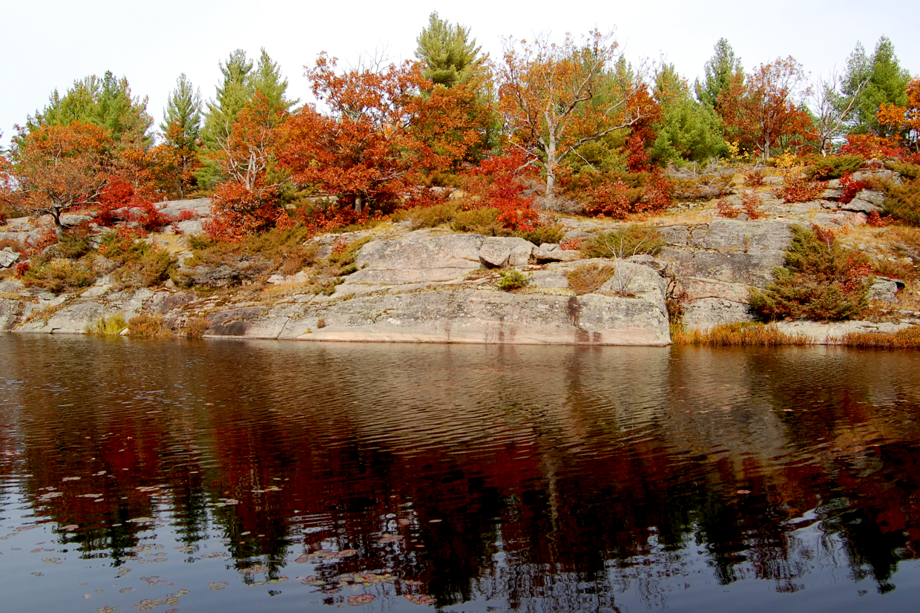 Shot at Torrance Barrens Conservation Area in Muskoka, Ontario, Canada.